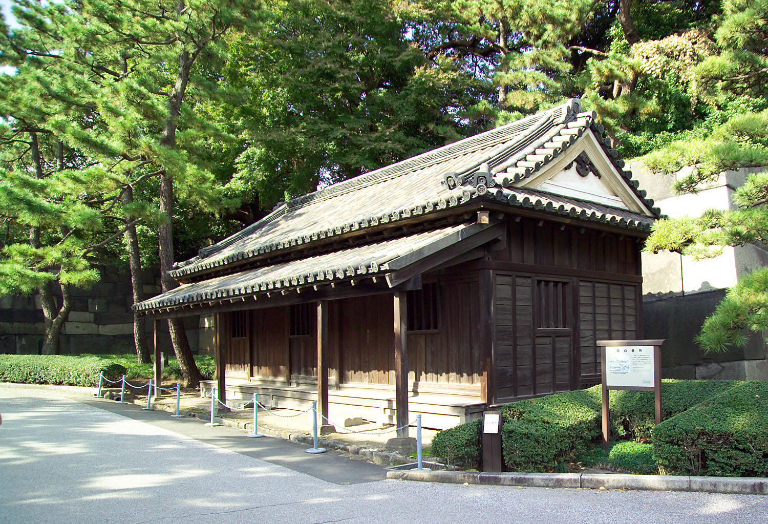 Doshin-bansho, Edo Castle, Tokyo, Japan.